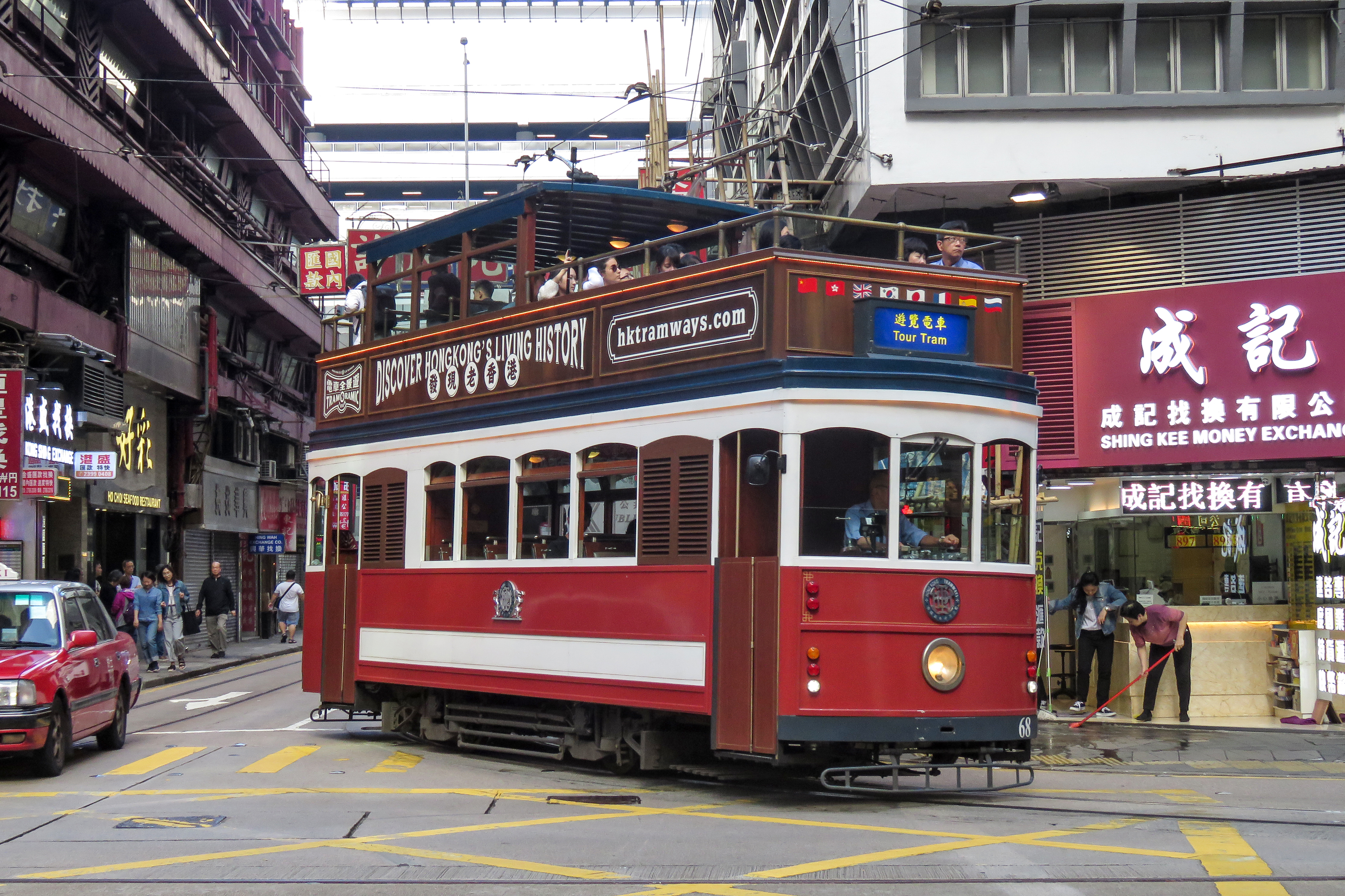 Tramoramic tour to Causeway Bay after this turn!